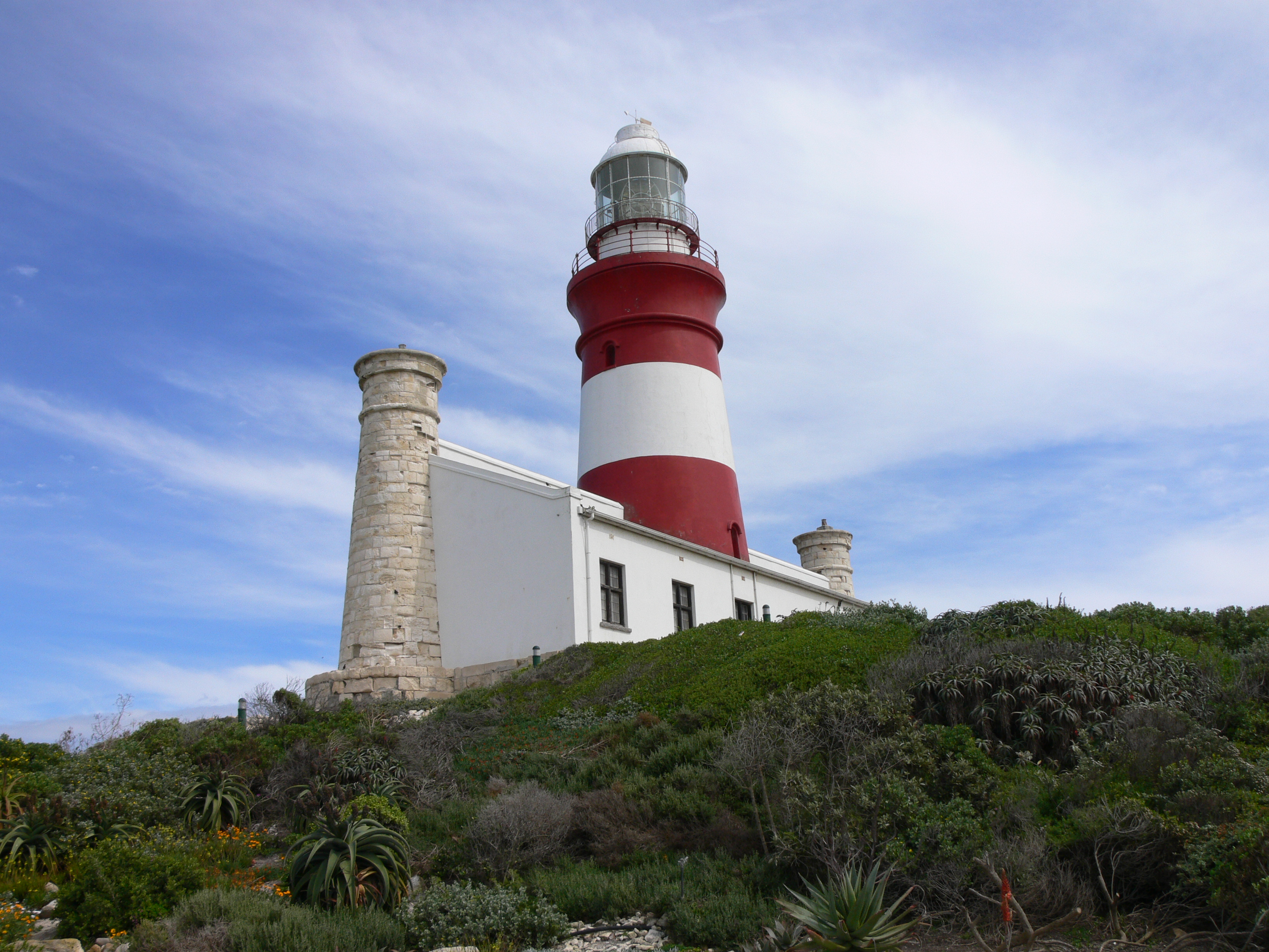 The lighthouse at Cape Agulhas, South Africa. Cape Agulhas is the geographic southern tip of the African continent, and is defined for hydrographic purposes to be the dividing line between the Atlantic and Indian oceans